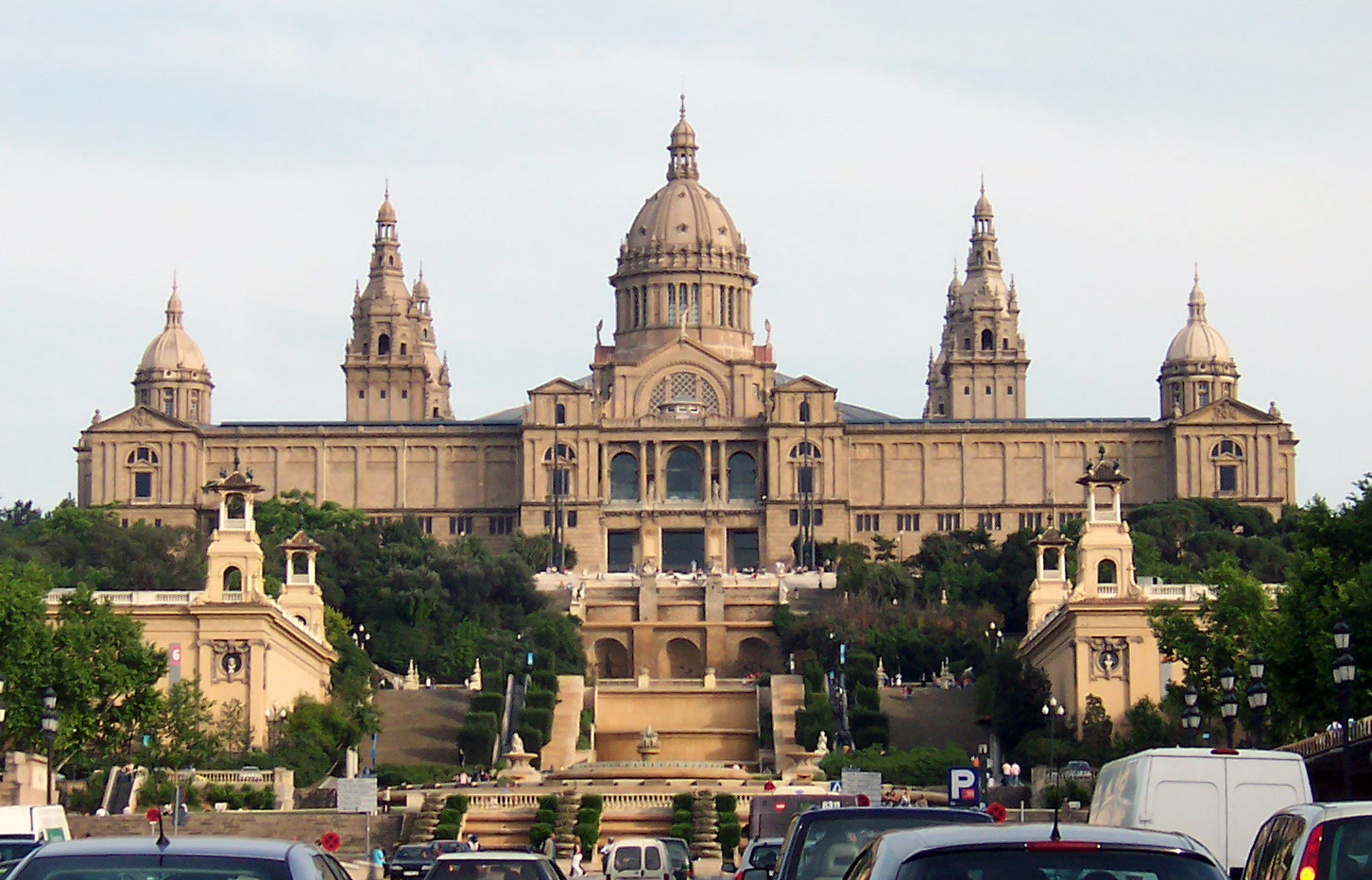 Catalunya National Museum of Art (MNAC), in Barcelona.